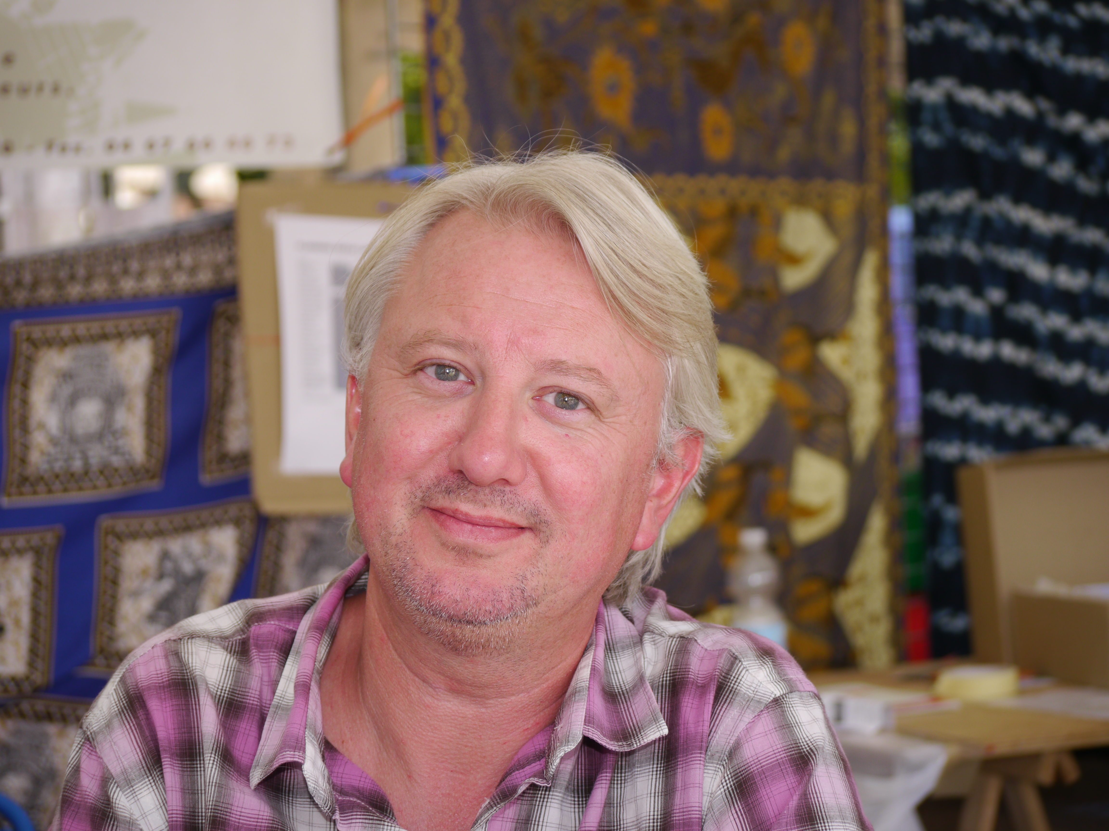 Comédie du Livre 2011 edition of Montpellier